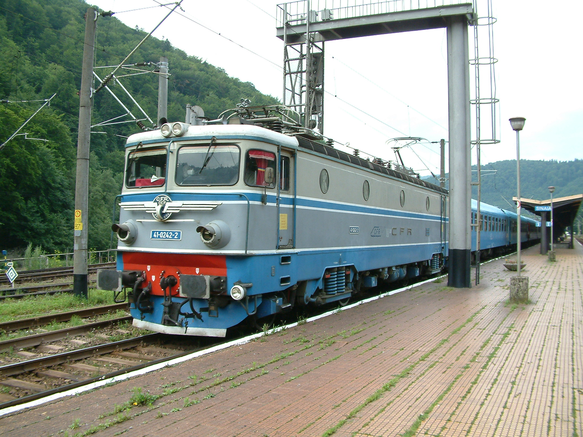 CFR locomotive 41-0242-2 at Sinaia